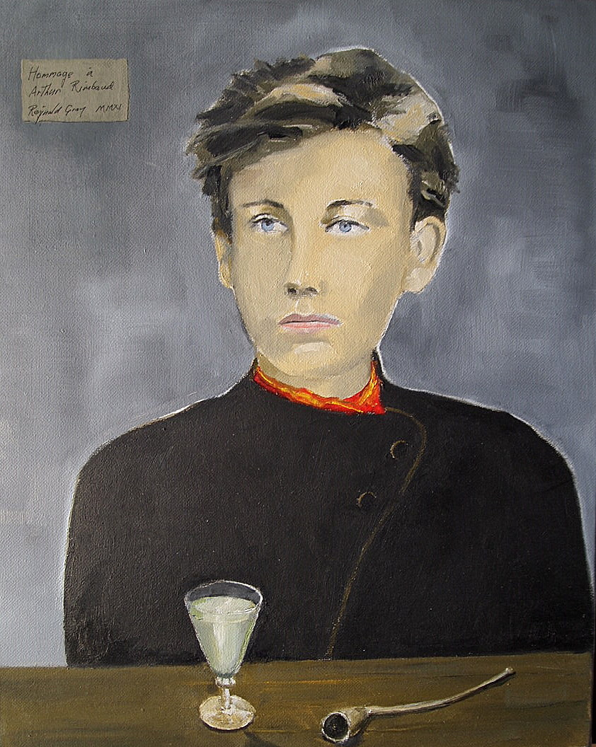 Portrait. Egg Tempera and Marble Dust on Canvass